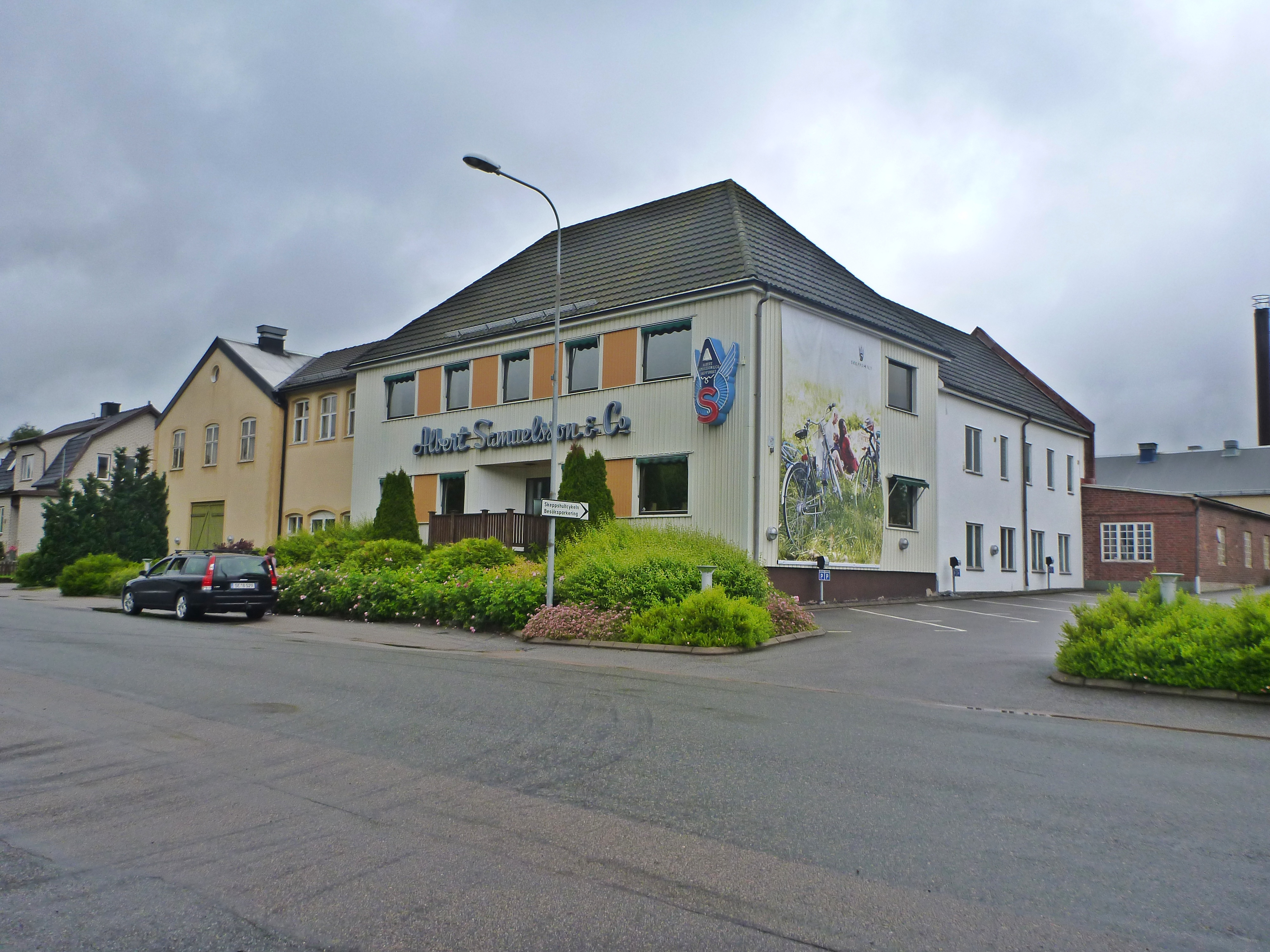 Main building of Skeppshultcykeln AB or Albert Samuelsson & Co AB in Skeppshult